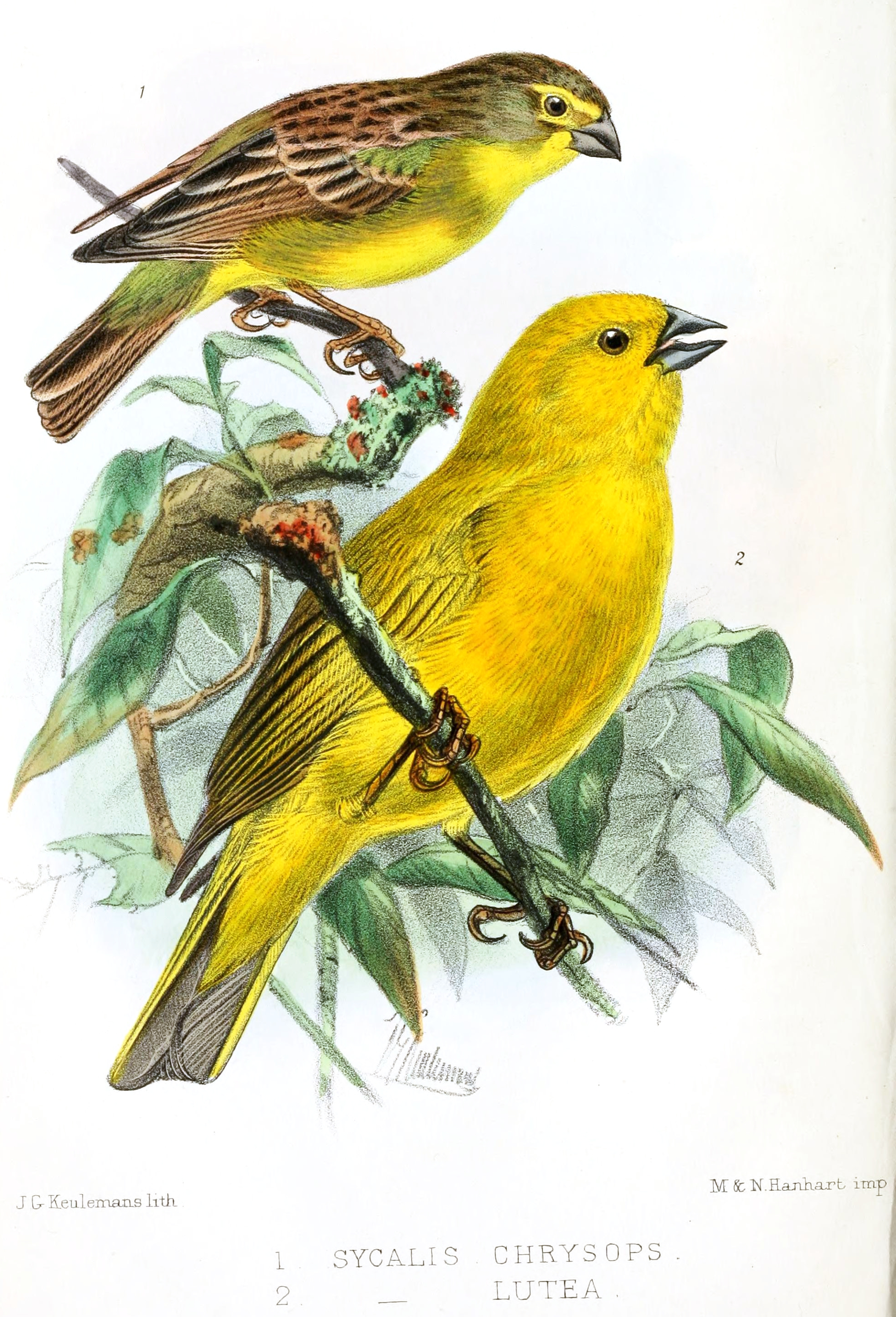 « Sycalis chrysops » = Sicalis luteola chrysops (Subspecies of Grassland Yellow Finch) « Sycalis lutea » = Sicalis lutea (Puna Yellow Finch)